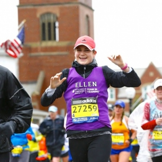 Participant of the 2016 Boston Marathon , April 2016.jpg